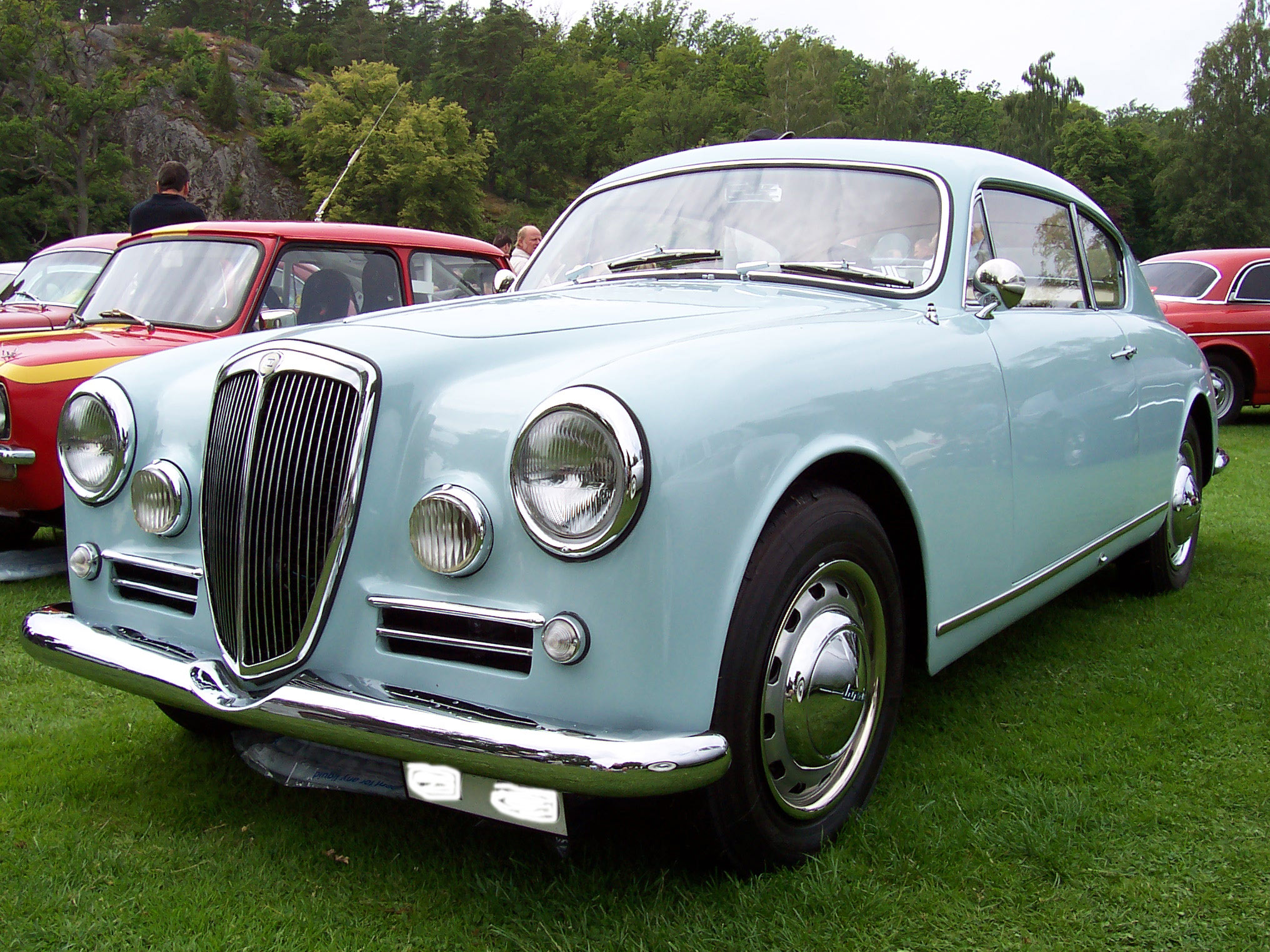 Lancia Aurelia B20 GT, a GT car from the 1950s.